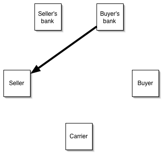 Letter of credit diagram